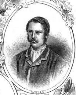 Wood engraving of the oarsman Frank Willan, c. 1869